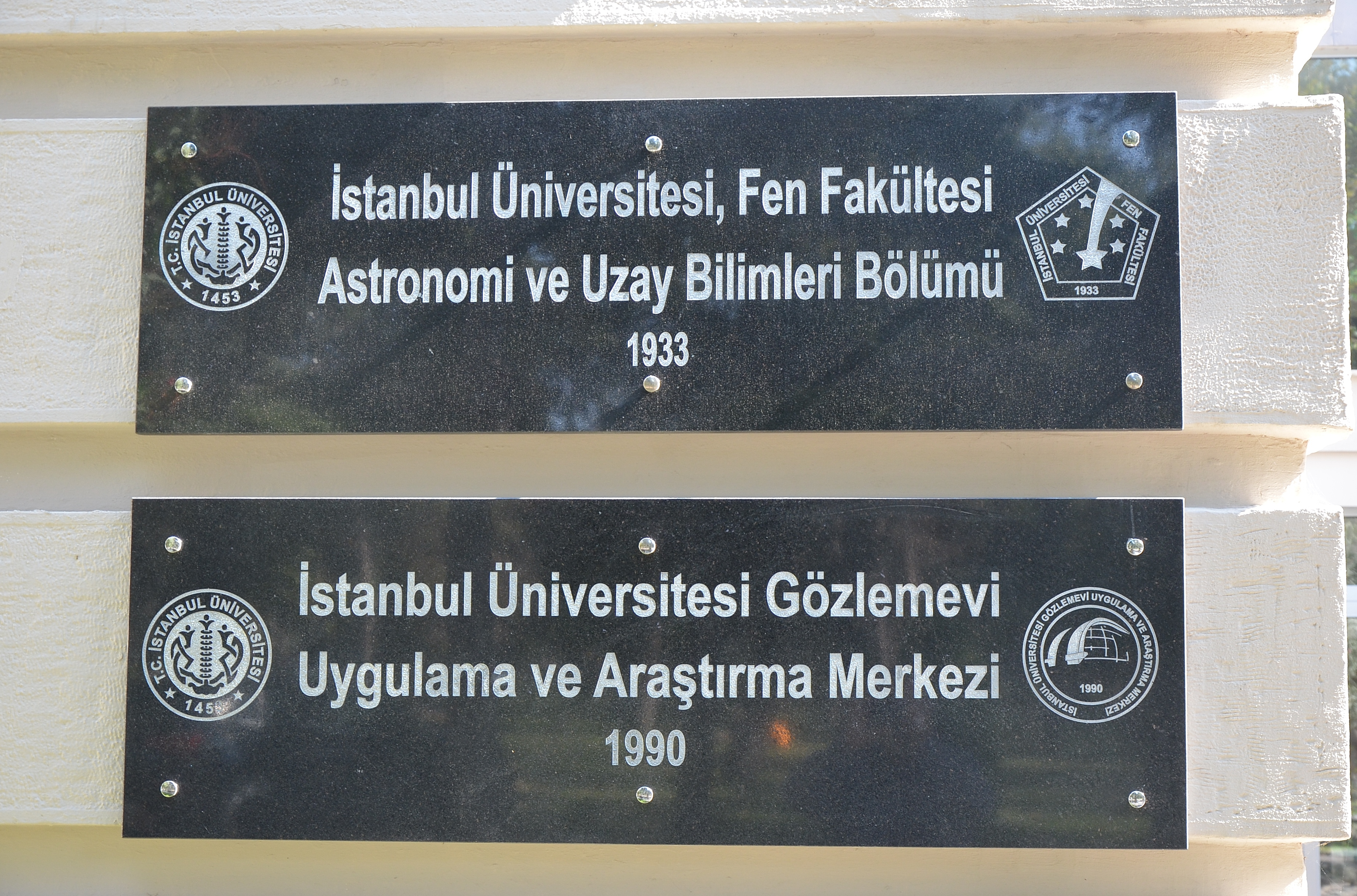 Sign at Istanbul University Observatory building